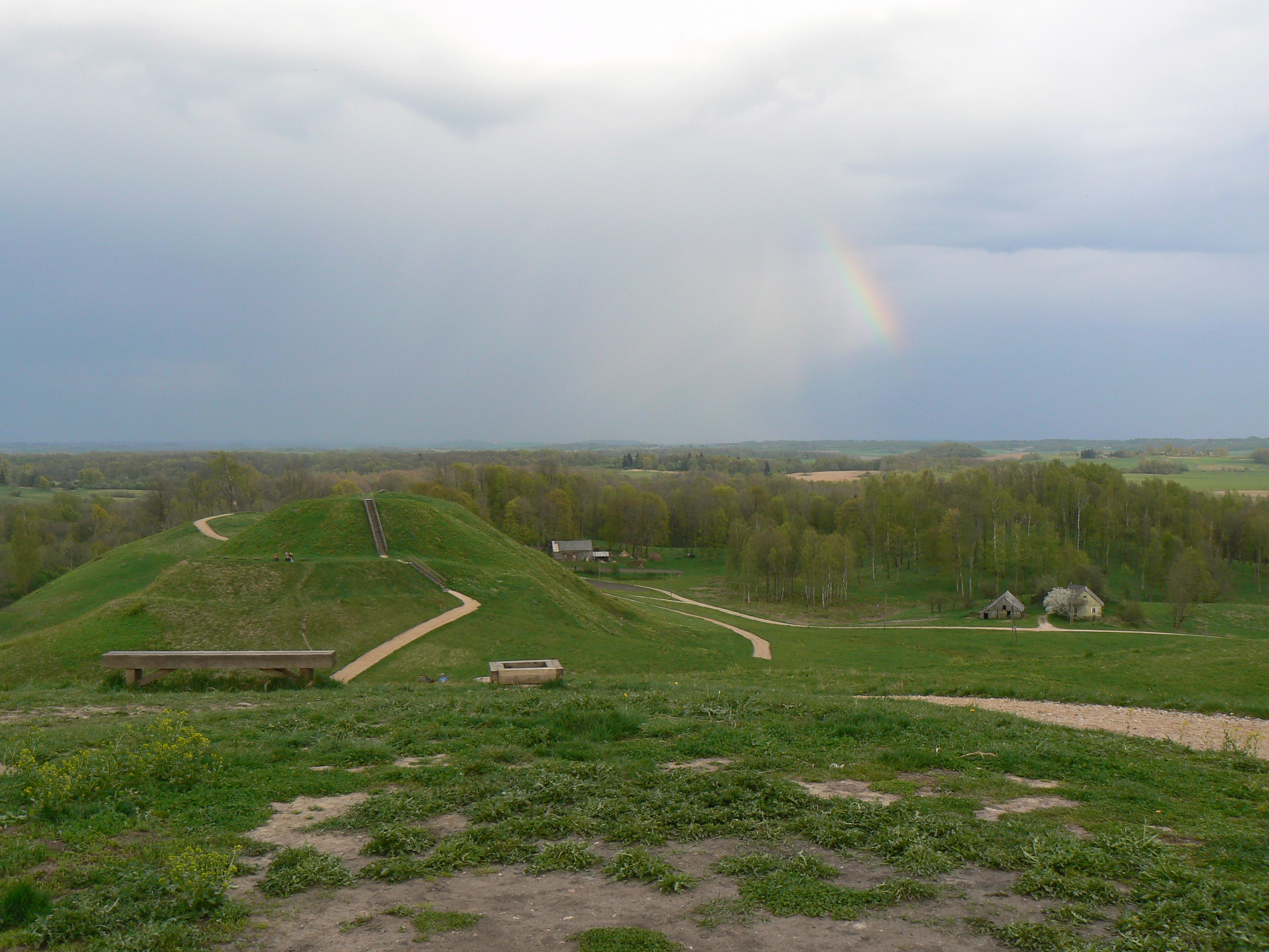 Hillfort Medvėgalis